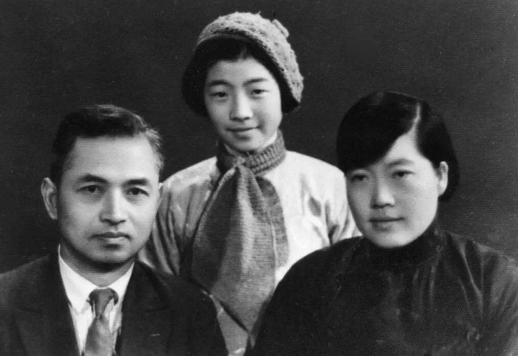 Li Siguang, wife Xu Shubin, and daughter Li Lin in Shanghai, 1935